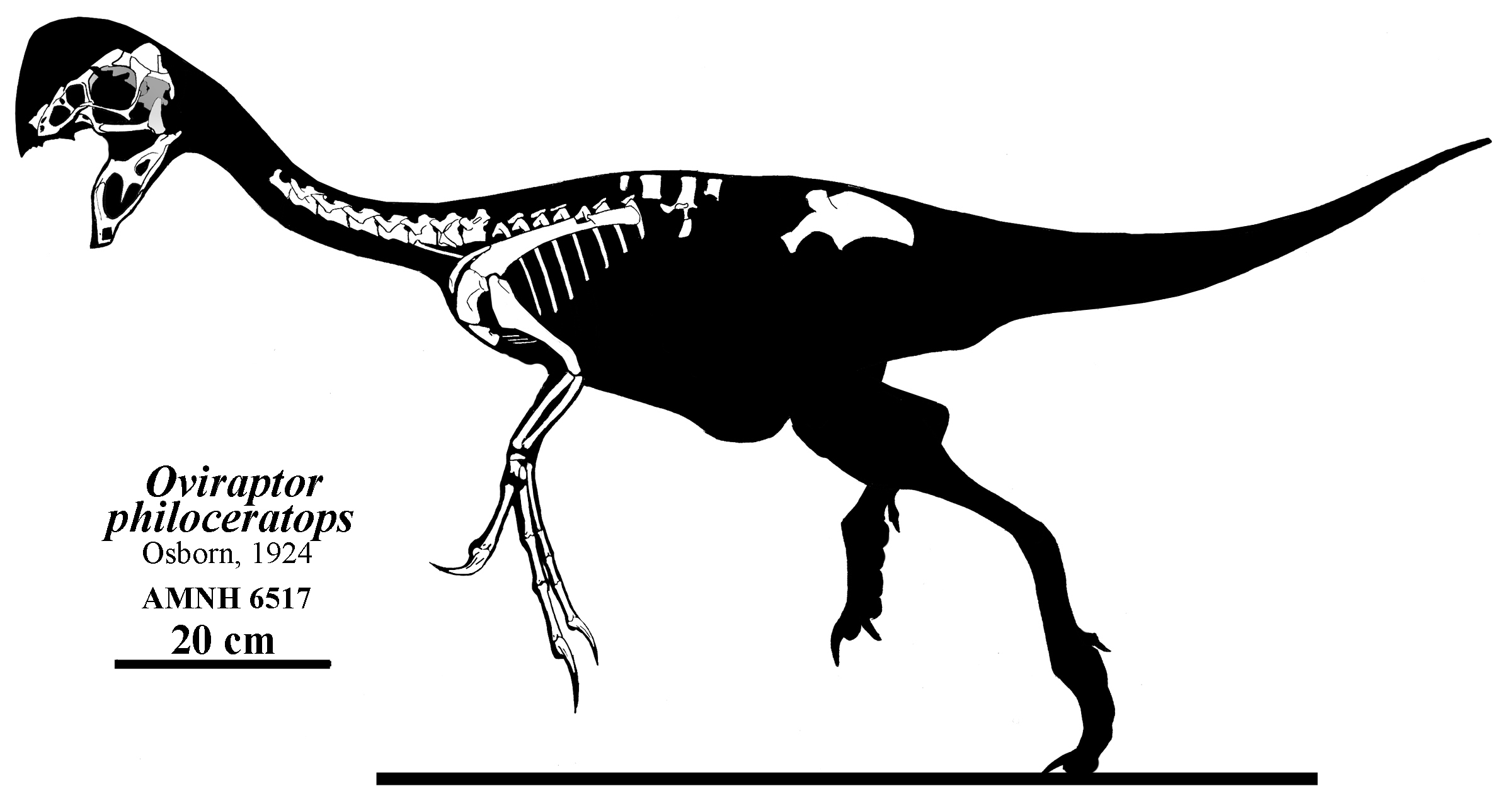 Skeletal reconstruction of Oviraptor philoceratops.